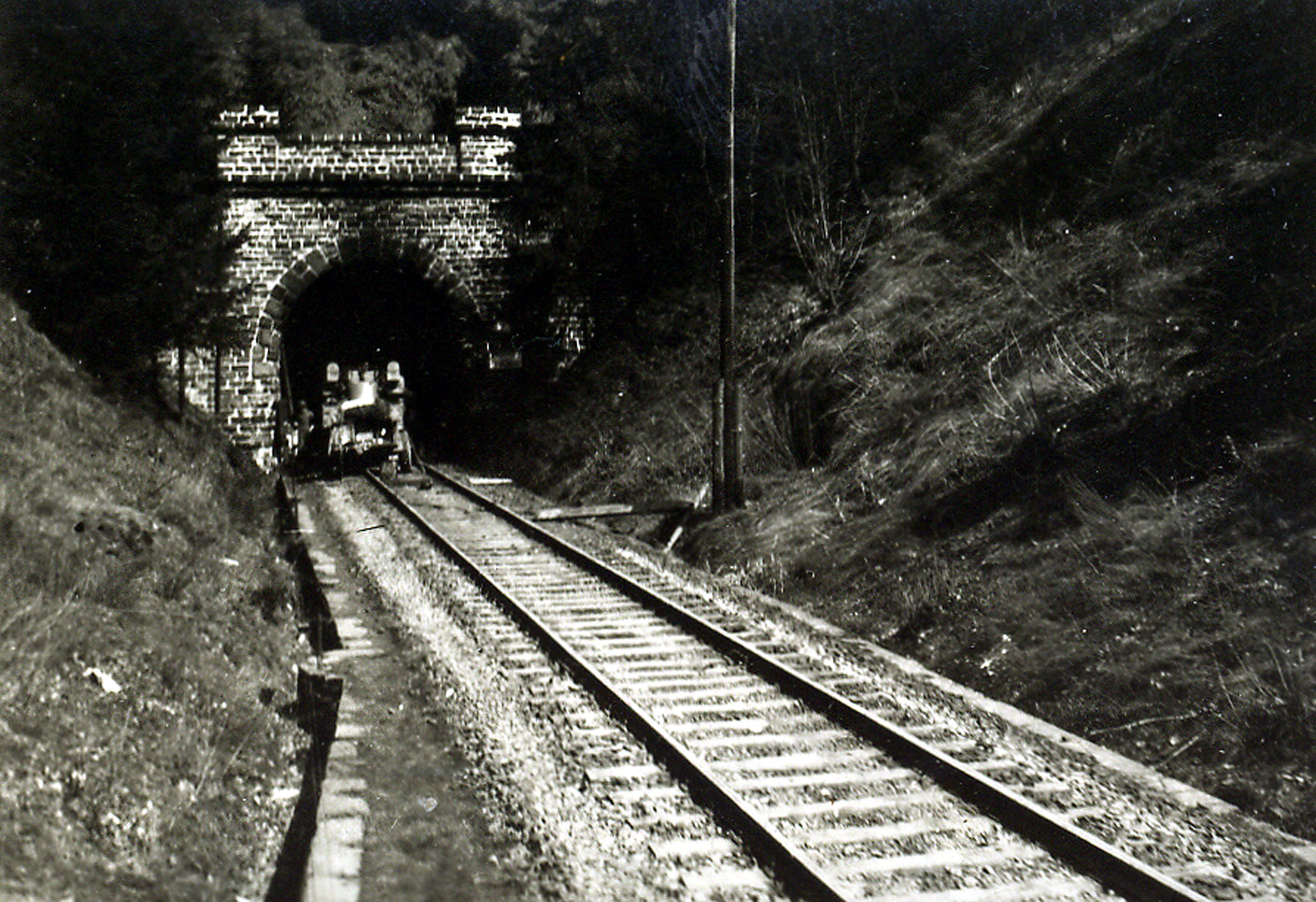 A tunnel entrance to a storage area for German V-1 and V-2 rocket components near the Dora Mittelbau complex, about 100 miles southwest of Berlin. Victor was among the first U.S. troops to arrive at the entrances to the Mittelwerk rocket assembly tunnels in April, 1945.